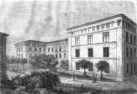 "Union" Factory Building